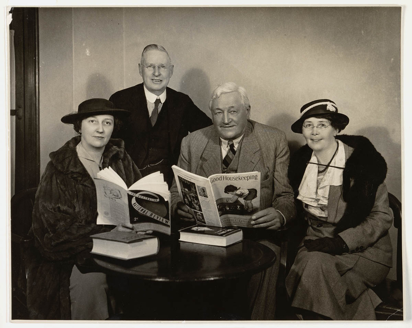 94. Miles Franklin (far right) with W. Farmer Whyte (standing), Mildred Seydell and M. Paul Wenz, 1938